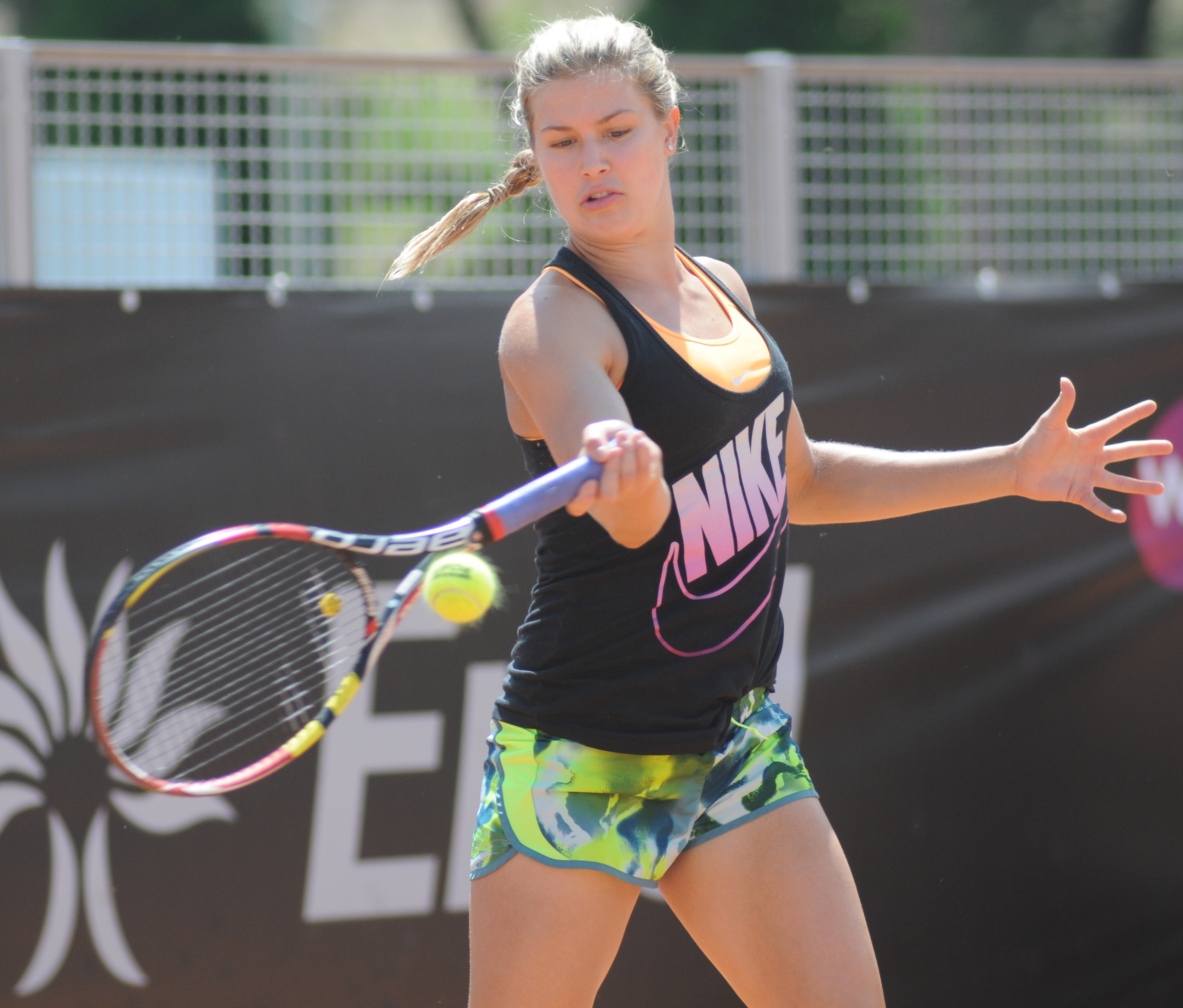 Eugenie Bouchard at the 2014 Internazionali BNL d'Italia